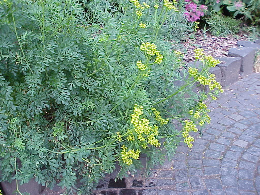 Species: Ruta graveolens Family: Rutaceae Image No. 10